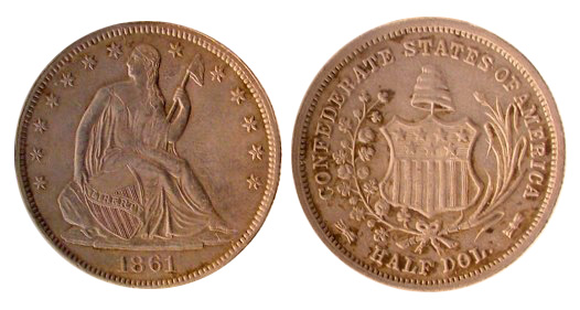 1861 Confederate States of American half dollar coin, front and back